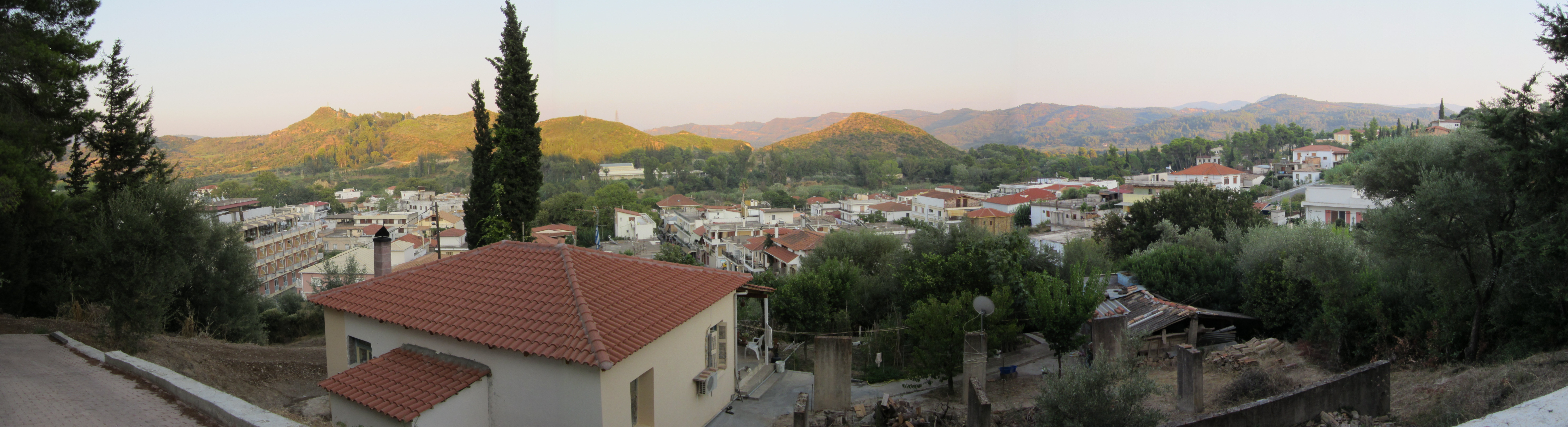 Olympia town, Greece.